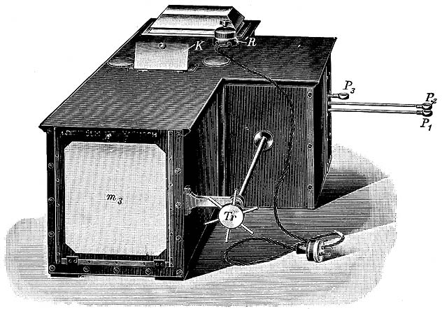 Willibald Nagel's adaptometer from "Psychologische und Physiologische Apparate" by E. Zimmermann